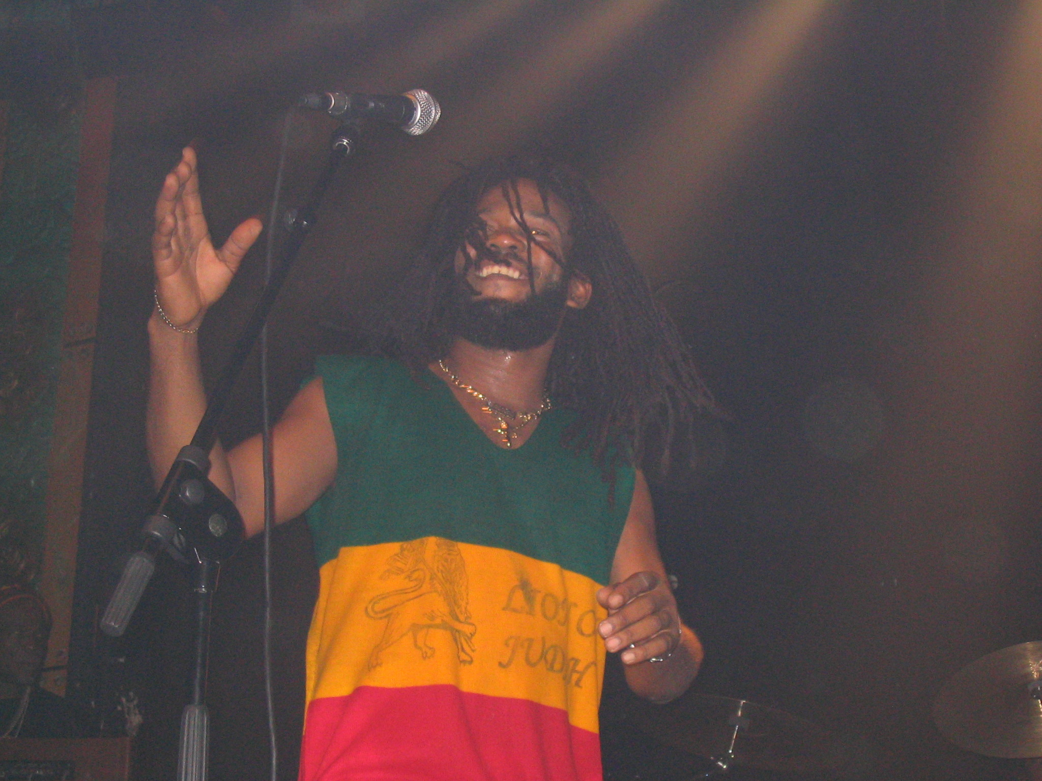 The reggae band Gladiators in concert in Rockstore, Montpellier, France, 11/20/06